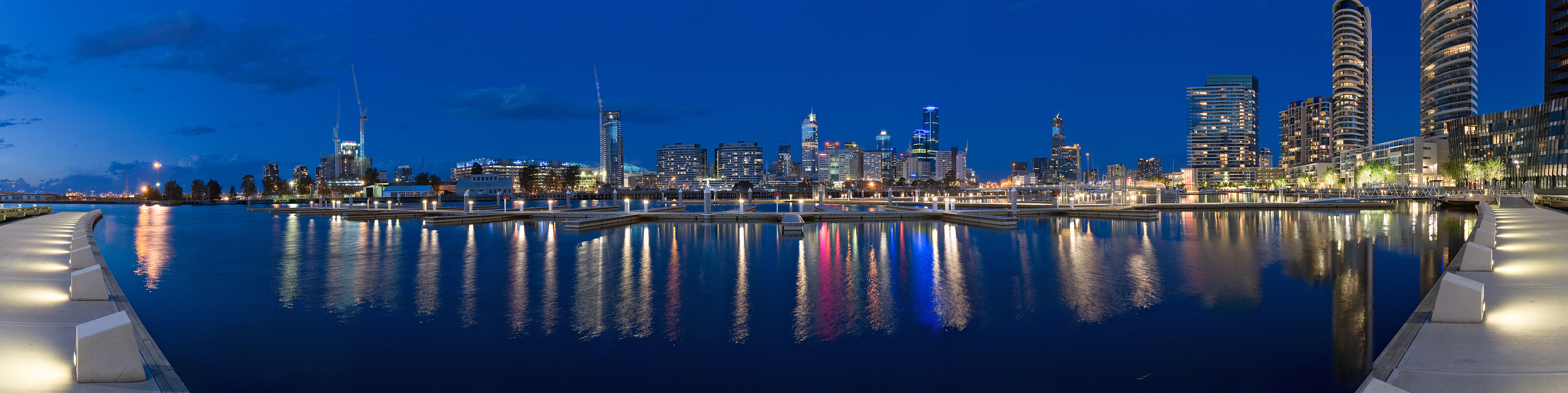 A panorama of the Melbourne skyline from Yarra's Edge, Docklands at twilight. Taken with a Canon 5D with a 24-105mm f/4L IS and stitched from 10 photos in portrait format.